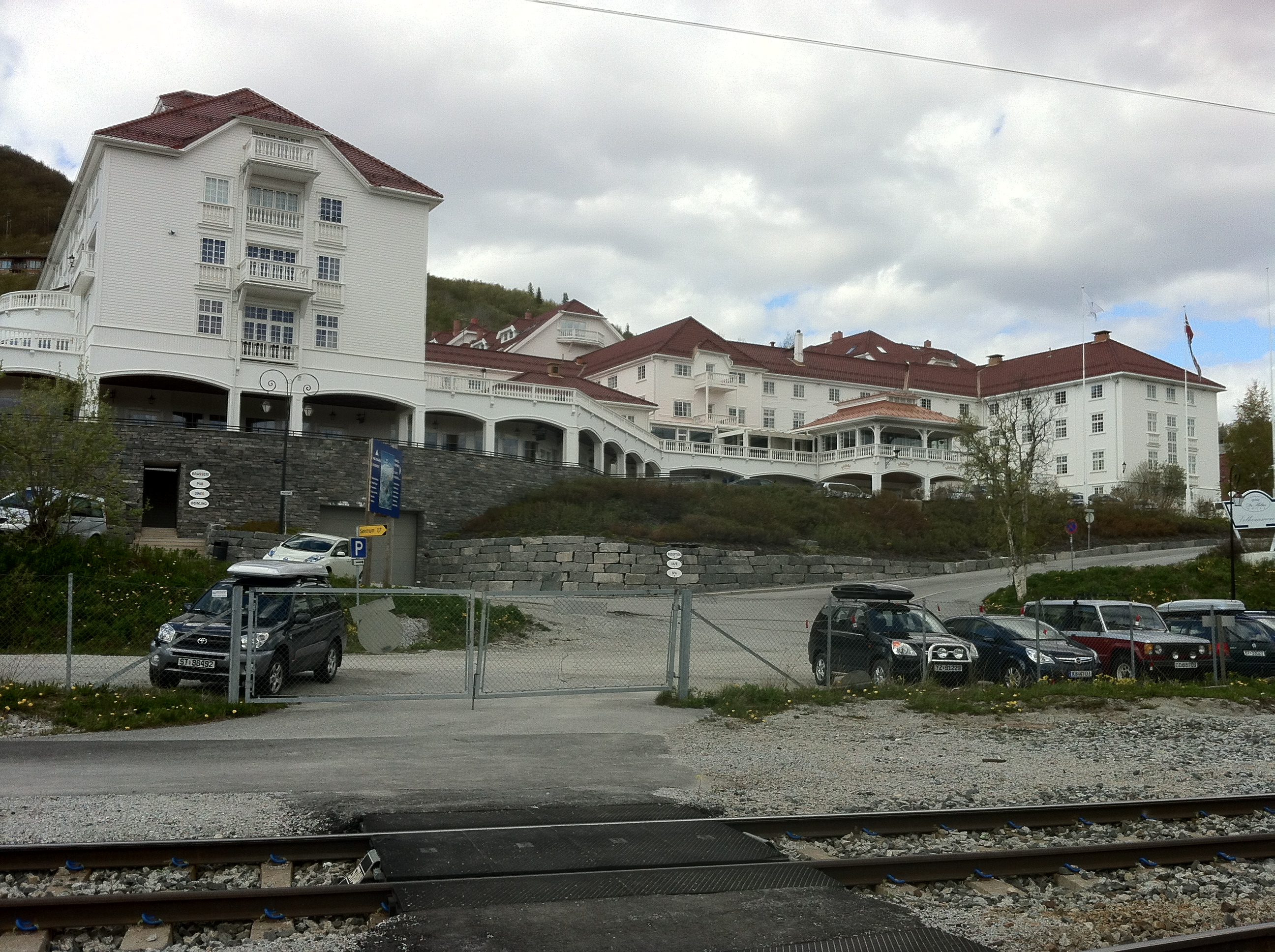 Dr Holms Hotel, Geilo